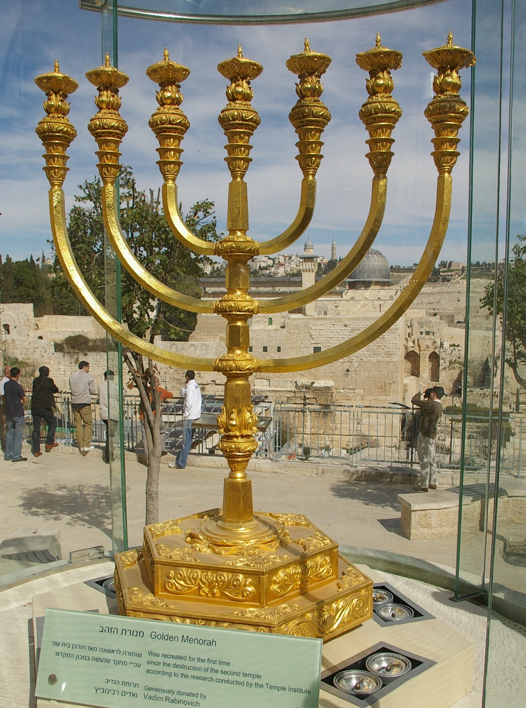 This is the menorah intended for use in a planned "Third Temple" to be built after demolishing the Mosques now standing on the place of the Second Temple. Taken in the Jewish Quarter of Jerusalem. Until 2007, this Menorah was displayed in the Cardo. Now it's on a square in front of the Kotel.